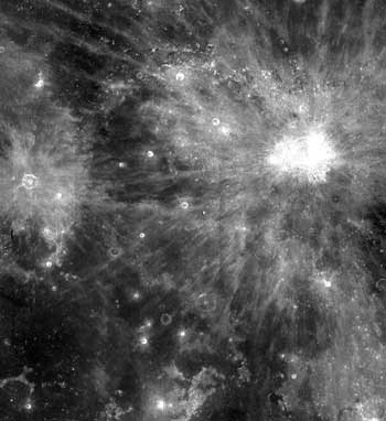 Mare Insularum. The mare is bordered by the craters Copernicus on the East, and Kepler on the west. Oceanus Procellarum joins the mare to the southwest. Copernicus is one of the most noticeable craters on the moon, seen as the white region on the photo. The rays from both Kepler and Copernicus protrude into the mare. The northern edge of Mare Cognitum is visible at the bottom of the photo, and Fra Mauro is the grey patch in the lower right.